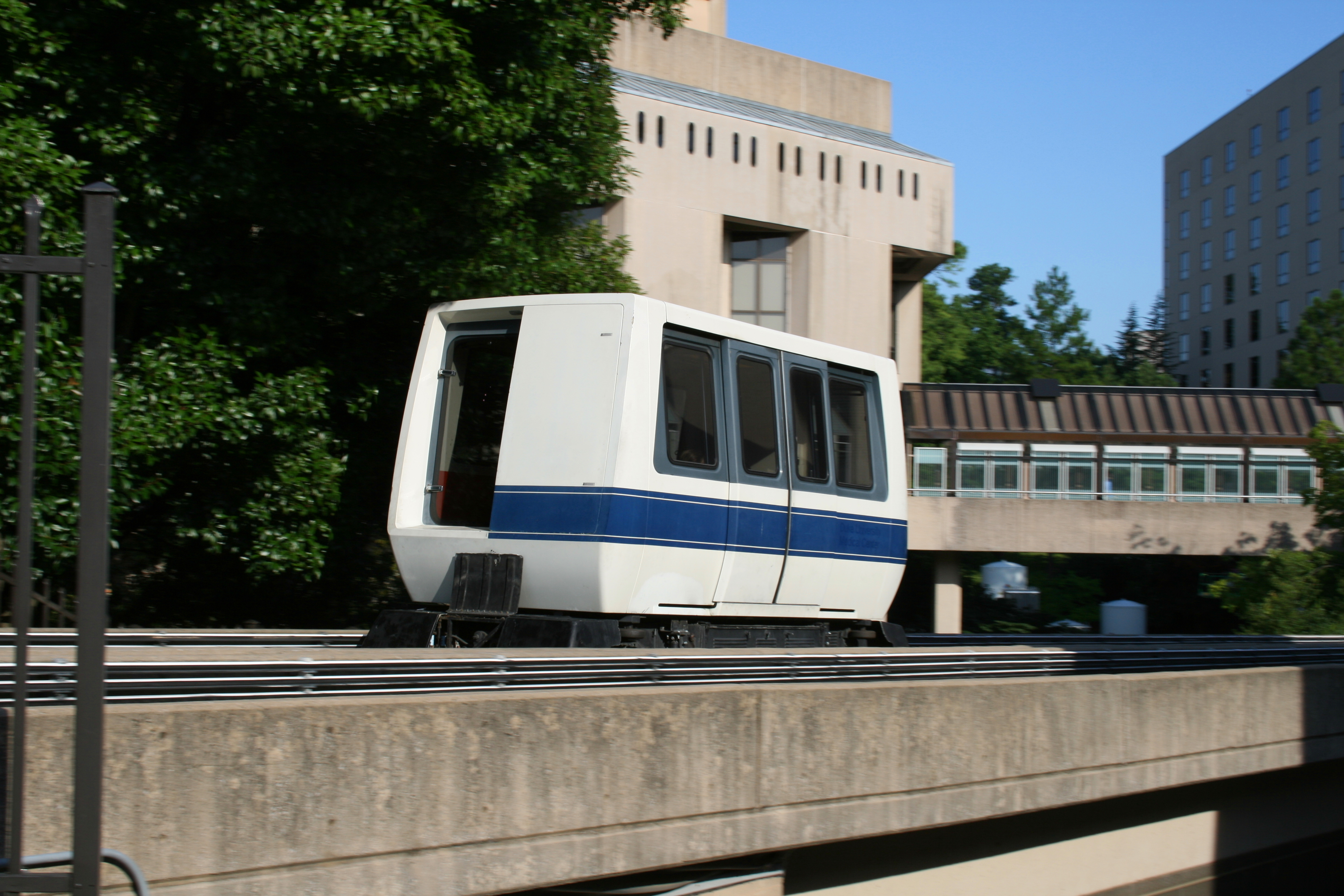 The Patient Rapid Transit (PRT) monorail train connecting parts of the Duke University Medical Center (DUMC) in Durham, North Carolina.